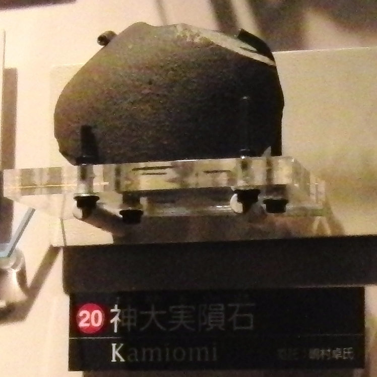 Kamiomi meteorite. Exhibit in the National Museum of Nature and Science, Tokyo, Japan.